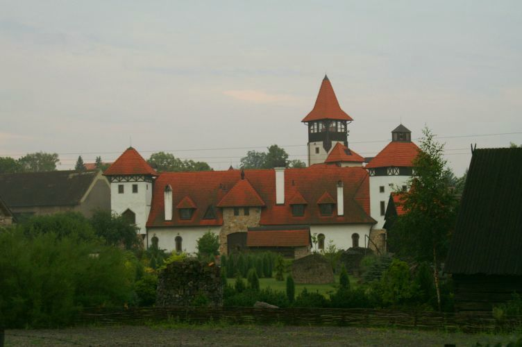 Contemporary castle replica in Červený Újezd (the Czech Republic, Prague-West District)